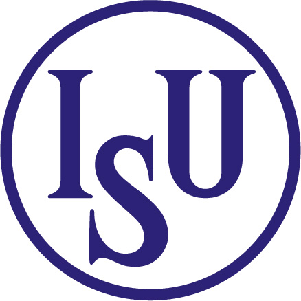 ISU Official Logo